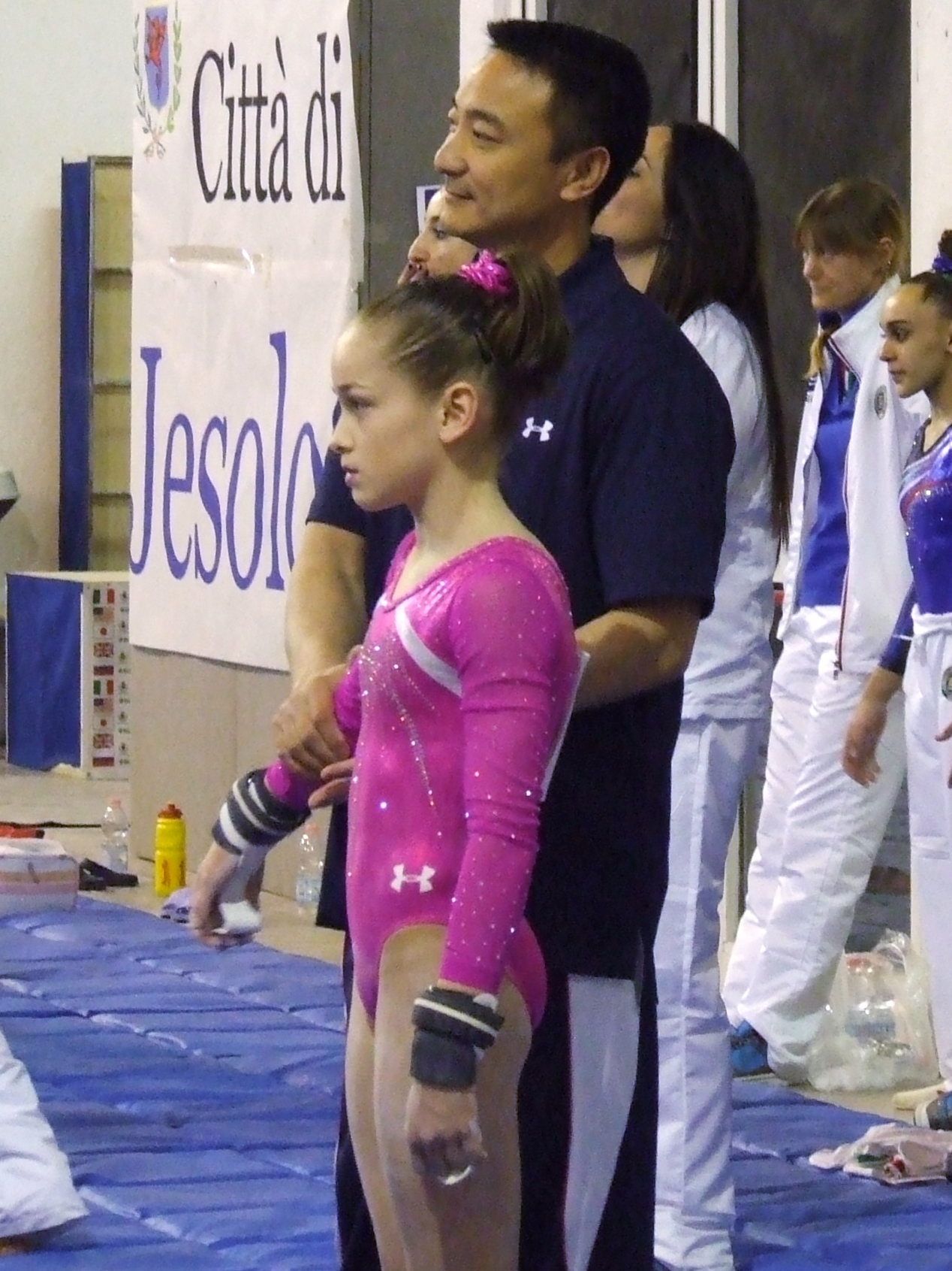 Norah Flatley and Liang Chow at 7th City of Jesolo Trophy